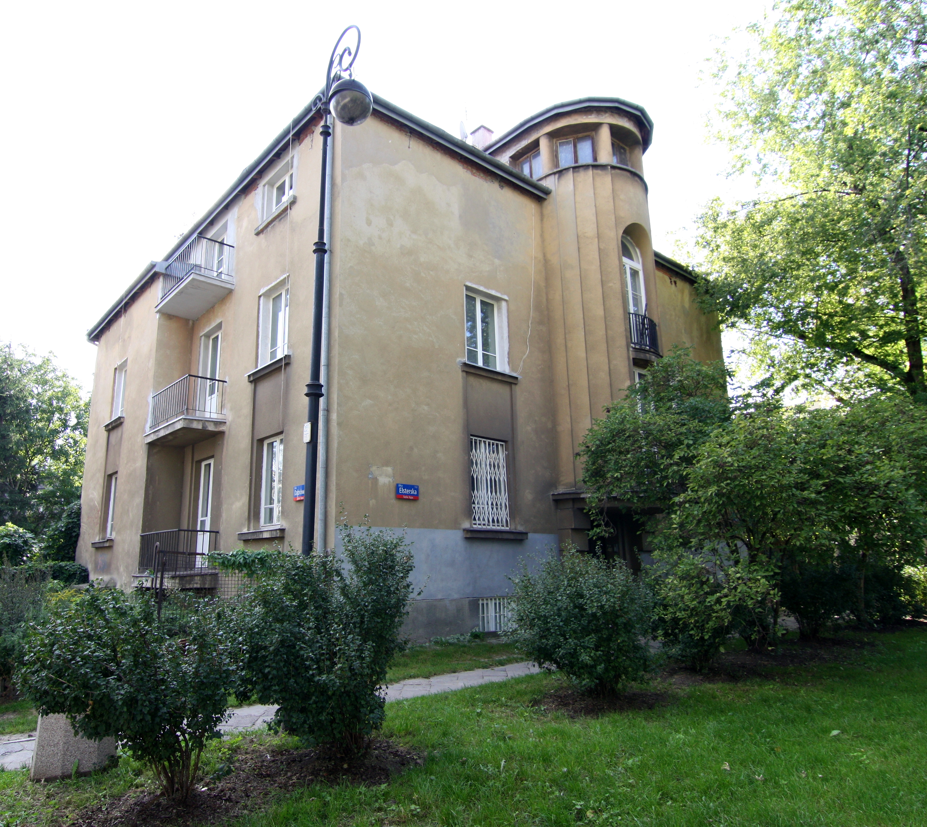 Villa of Władysław Różycki, Warsaw, Poland